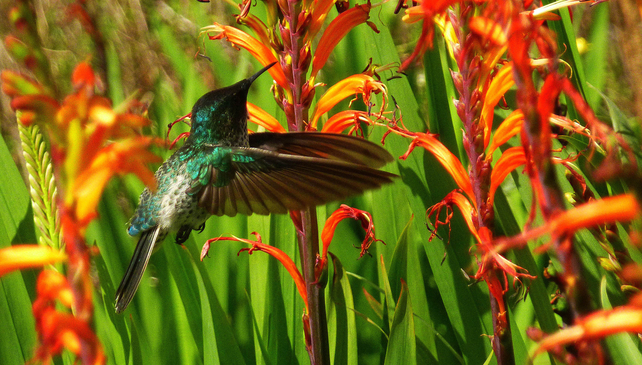 500px provided description: Sephanoides Fernandensis Female [#bird ,#nature ,#colors ,#colorful ,#colours ,#hummingbird ,#mother nature ,#picaflor ,#humming bird ,#colibr? ,#hummingbird flying ,#picaflor verde ,#fauna fernandeziana]